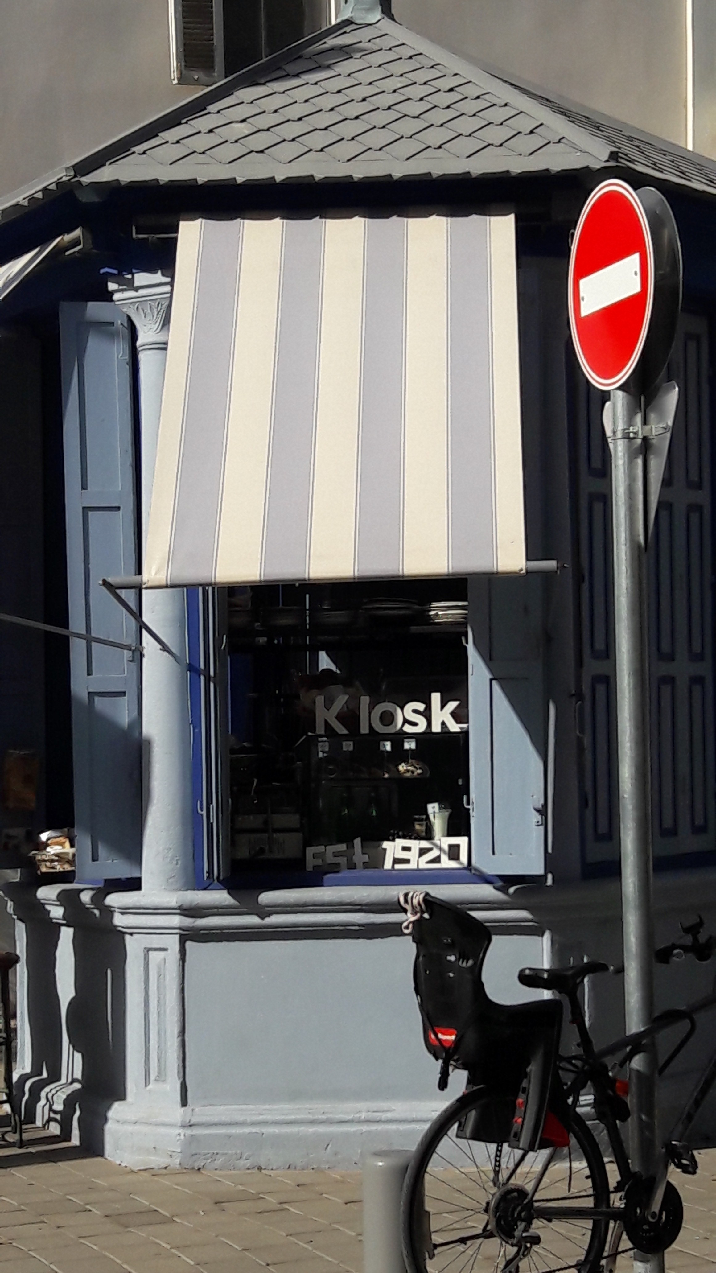 A renovated kiosk on Lilienblum Street in Tel Aviv